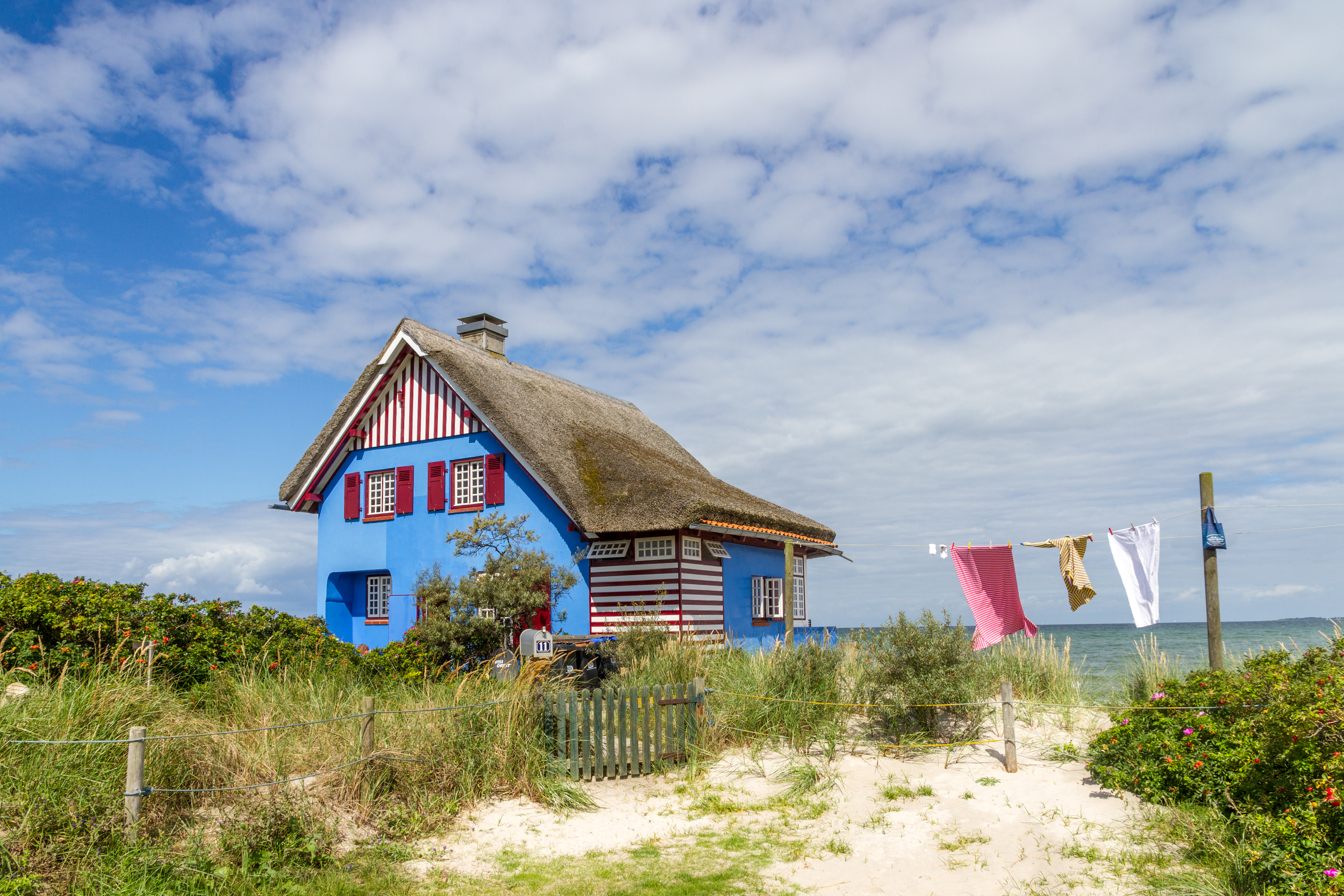 House on Graswarder